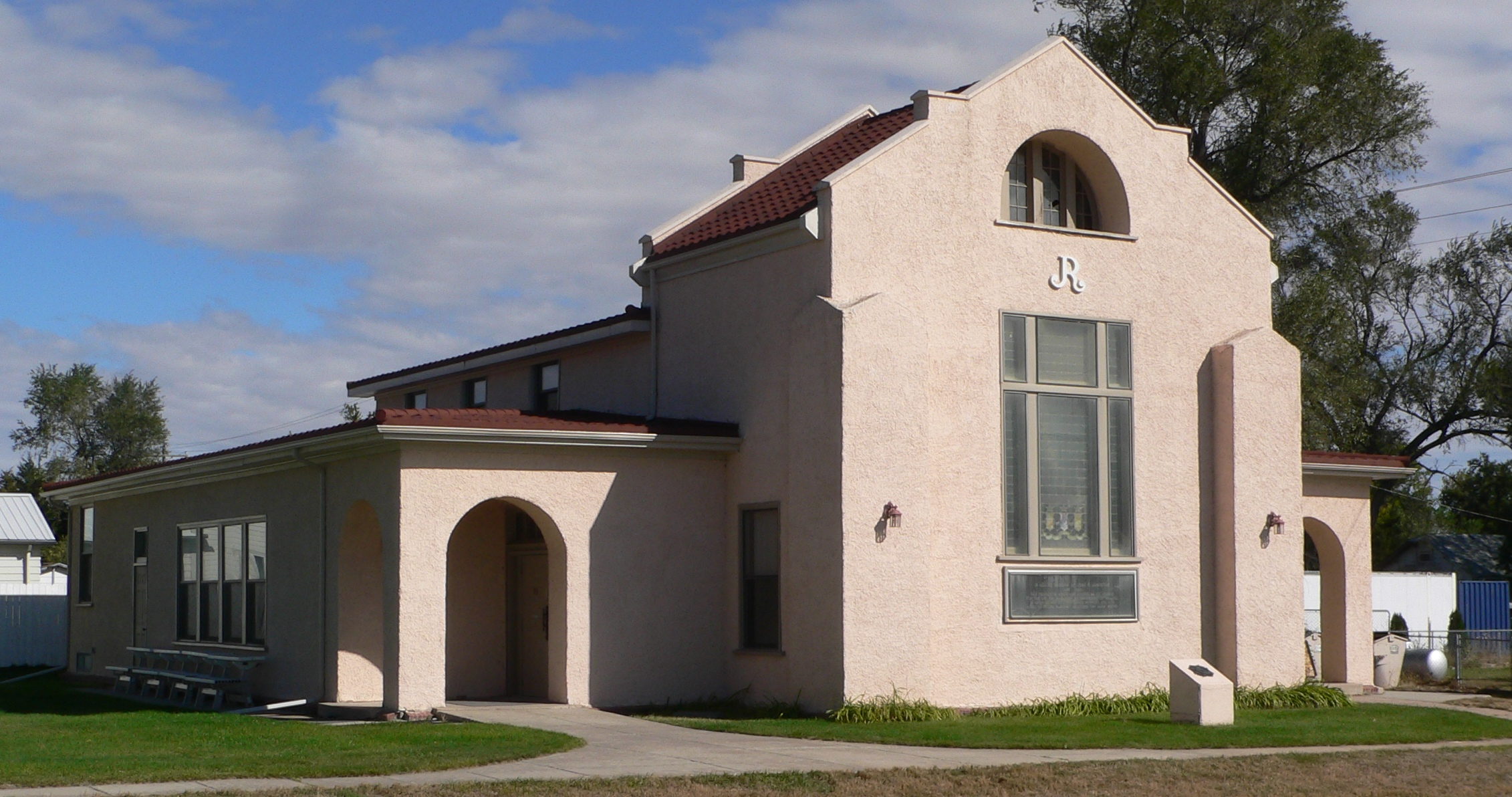 Johnston Memorial Building in Wallace, Nebraska; seen from the southwest.